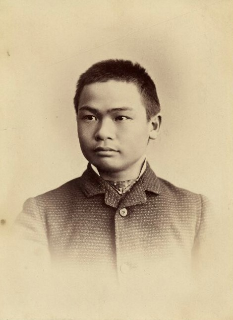 Jeme Tien Yow, engineer